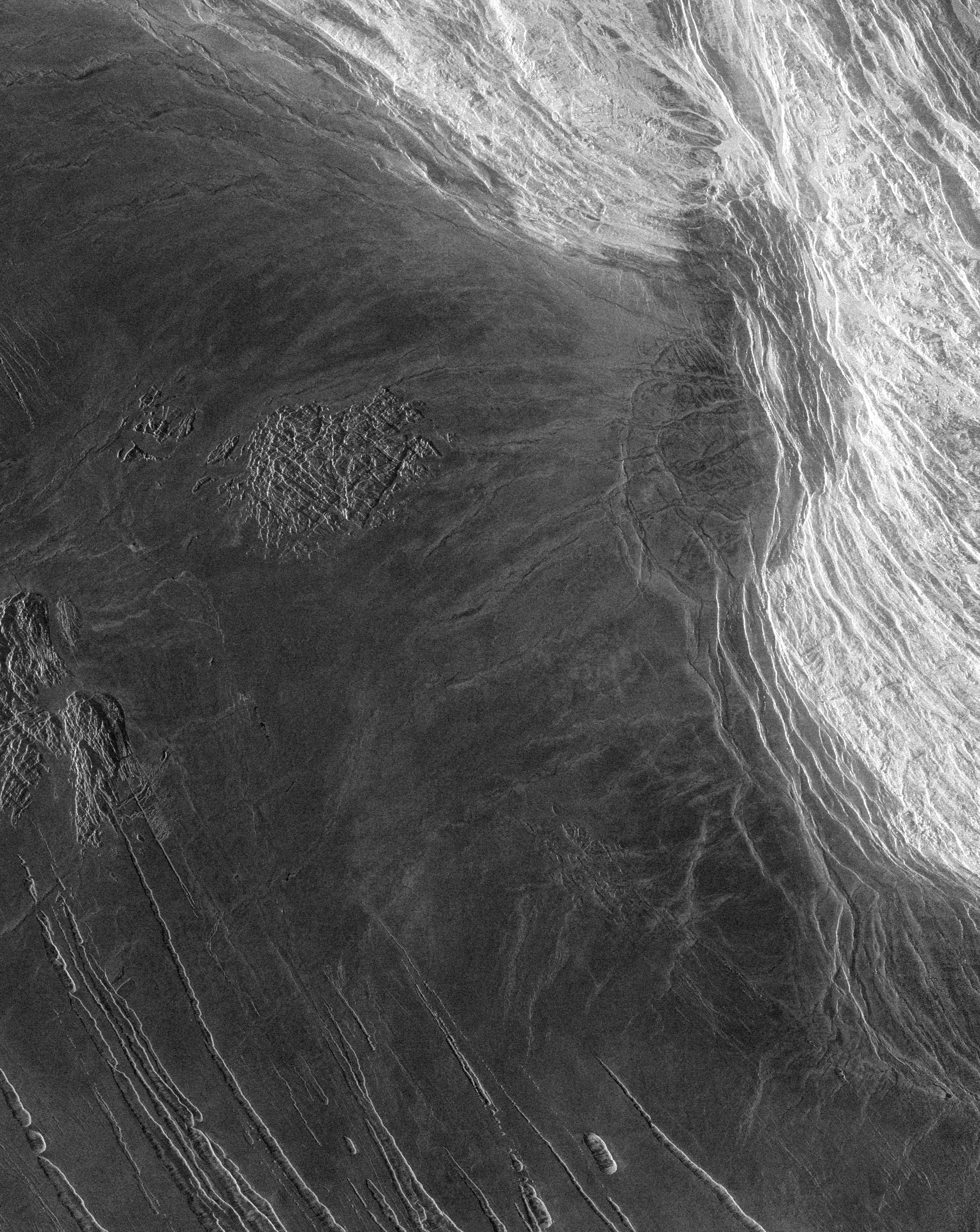 Venus - Lakshmi Planum and Maxwell Montes Original Caption Released with Image: This Magellan full resolution radar image is centered at 65 degrees north latitude, zero degrees east longitude, along the eastern edge of Lakshmi Planum and the western edge of Maxwell Montes. The plains of Lakshmi are made up of radar-dark, homogeneous, smooth lava flows. Located near the center of the image is a feature previously mapped as tessera made up of intersecting 1- to 2-km (0.6 to 1.2 miles) wide graven. The abrupt termination of dark plains against this feature indicates that it has been partially covered by lava. Additional blocks of tessera are located along the left hand edge of the image. A series of linear parallel troughs are located along the southern edge of the image. These features, 60- to 120-km (36- to 72- miles) long and 10- to 40- km (6- to 24- miles) wide are interpreted as graben. Located along the right hand part of the image is Maxwell Montes, the highest mountain on the planet, rising to an elevation of 11.5 km (7 miles) and is part of a series of mountain belts surrounding Lakshmi Planum. The western edge of Maxwell shown in this image rises sharply, 5.0 km (3.0 miles), above the adjacent plains in Lakshmi Planum. Maxwell is made up of parallel ridges 2- to 7-km (1.2- to 4.2 miles) apart and is interpreted to have formed by compressional tectonics. The image is 300 km (180 miles) wide.